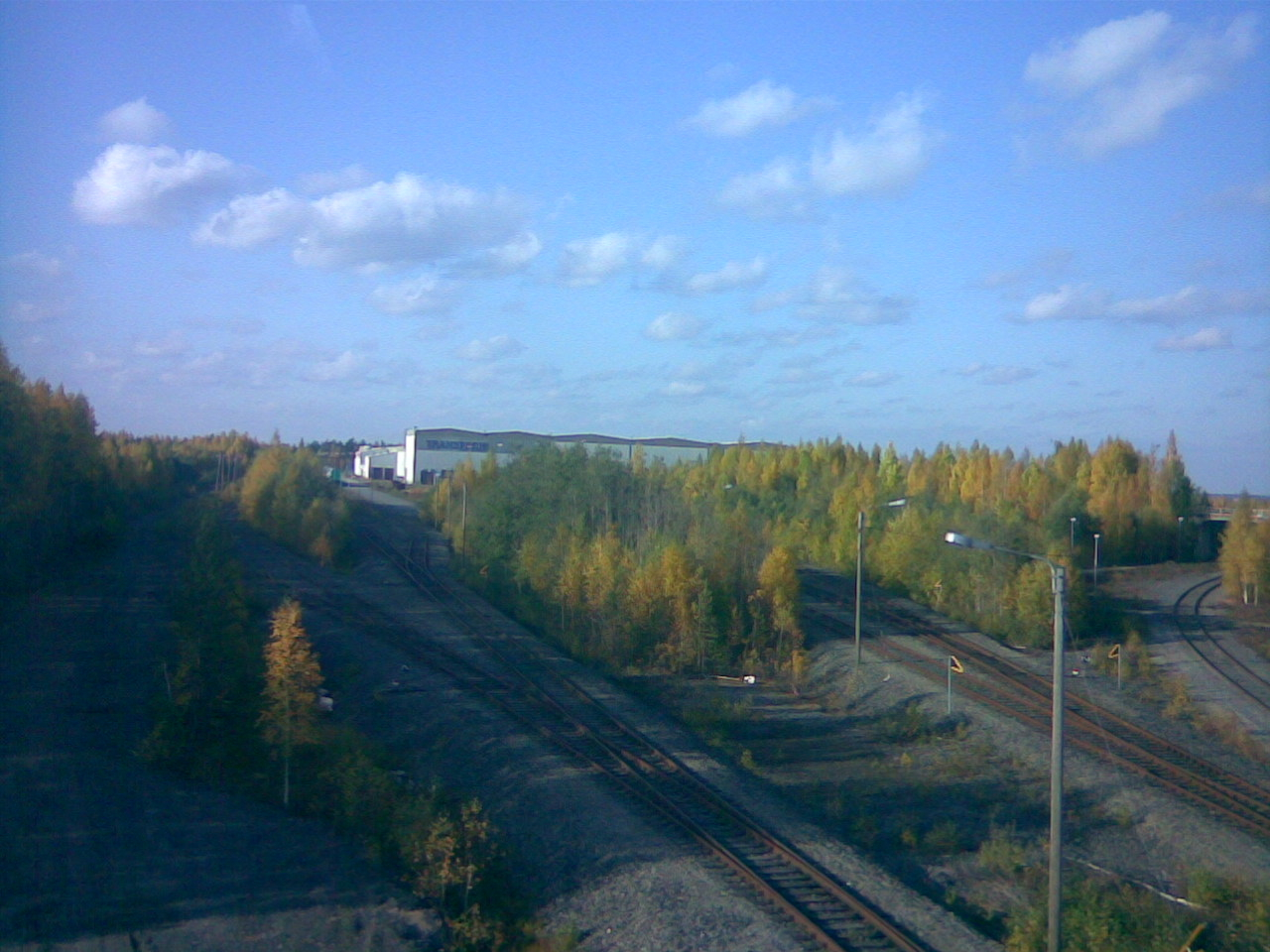 Transtech Ltd factory in Otanmäki, Kajaani, Finland.